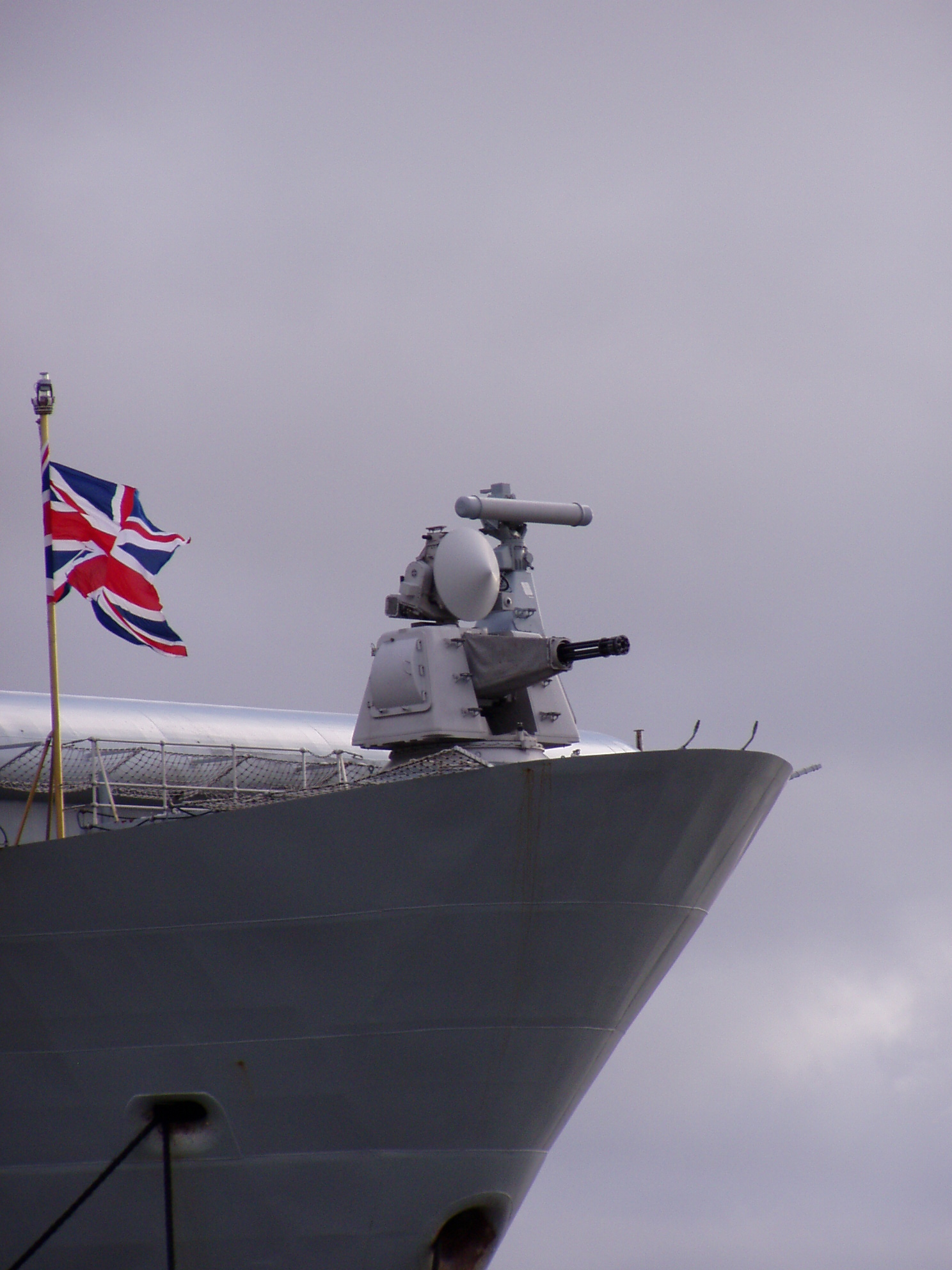 HMS Illustrious at Liverpool Cruise liner terminal October 2009 close up of Goalkeeper CIWS.